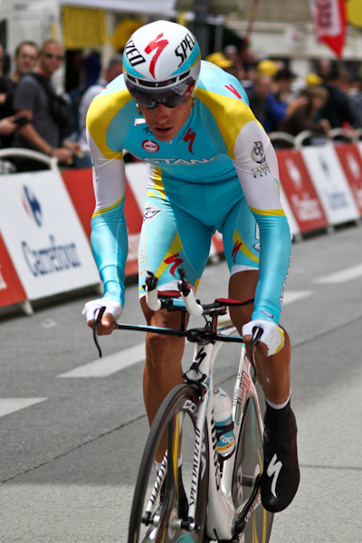 Roman Kreuziger during Stage 20 of the 2011 Tour de France.